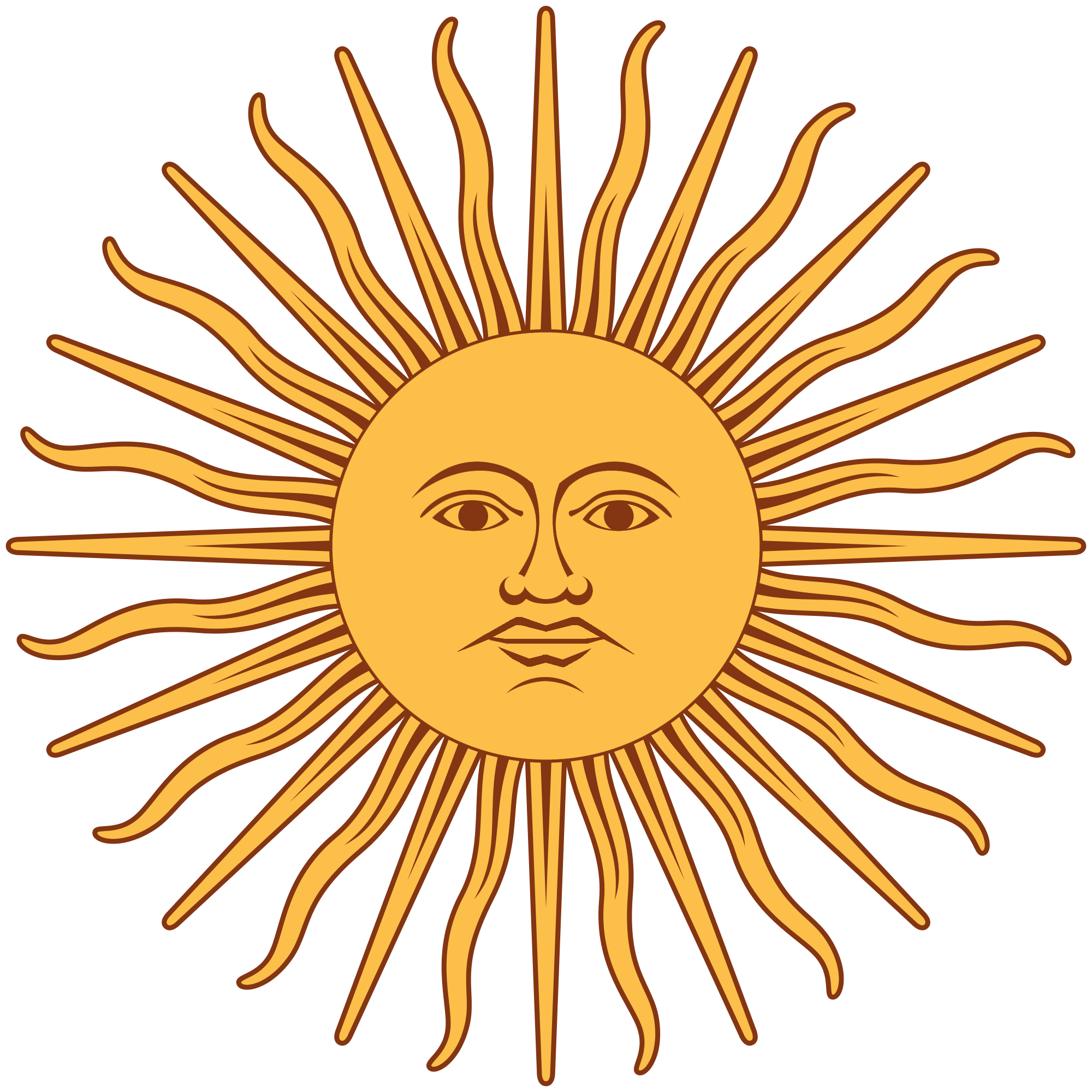 The "Sol de Mayo" of the Argentina national flag.